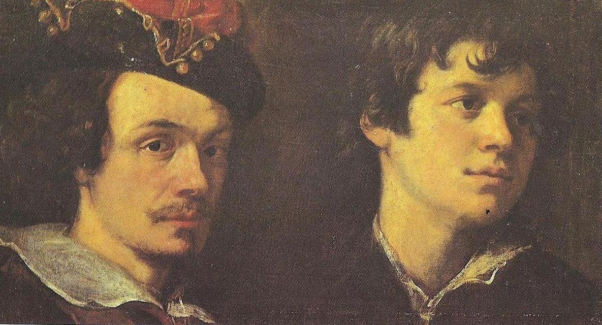 Opere del Cigoli